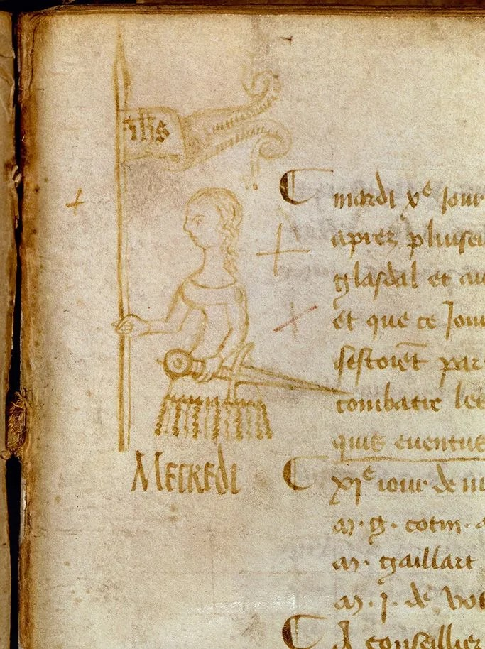 Joan of Arc in the protocol of the parliament of Paris (1429). Drawing by Clément de Fauquembergue. Banner seems to have "IHS" Jesus monogram.